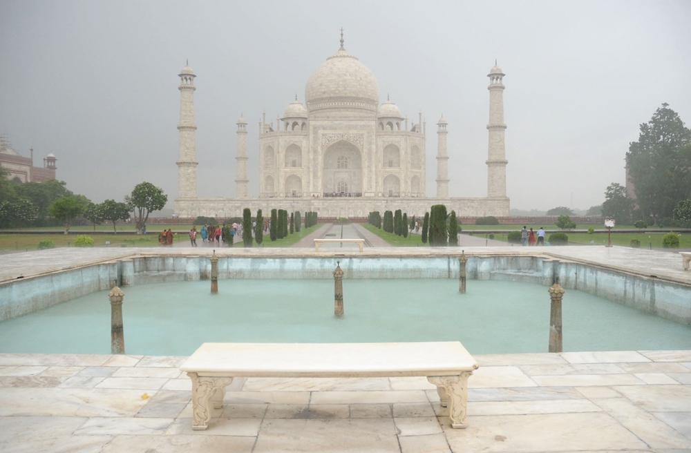 Taj Mahal, India, during a monsoon downpour